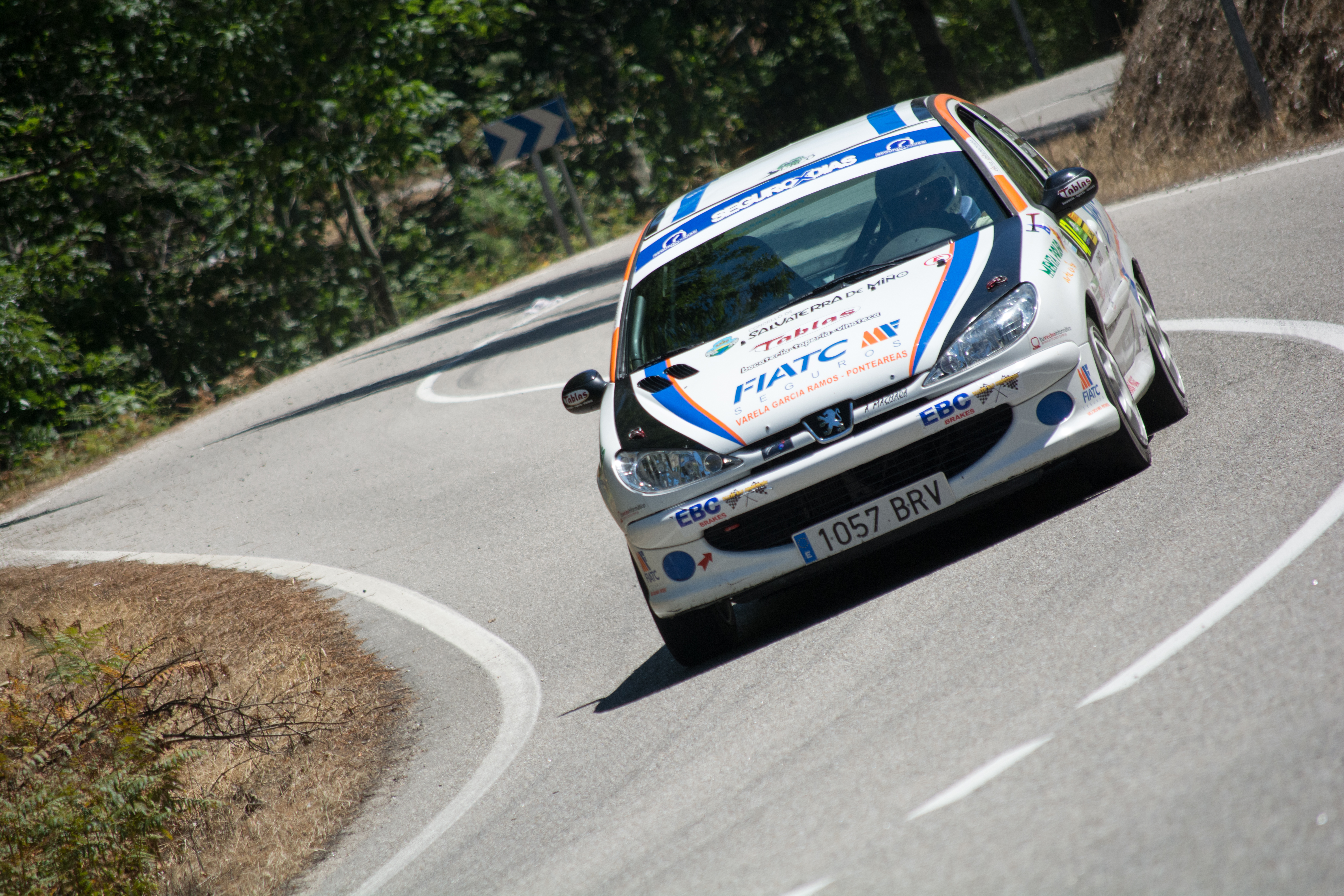 Rally Sur do Condado 2016